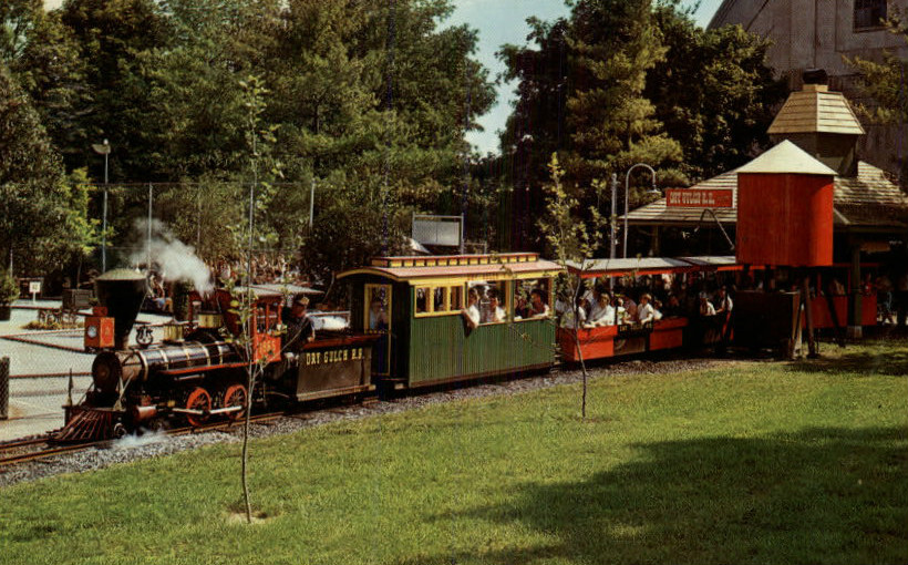 Postcard photo of the Dry Gulch Railroad miniature train at Hersheypark.